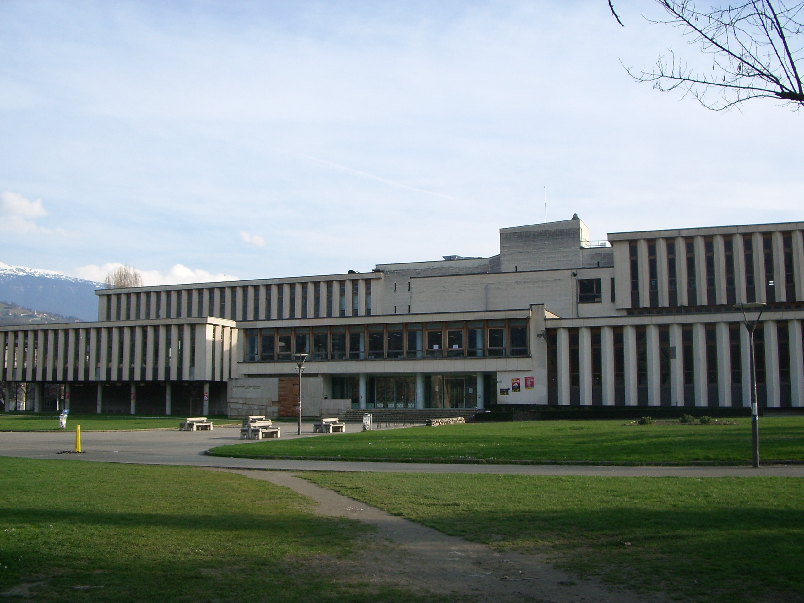 Literacy and Rights library, Grenoble university, Saint-Martin-d'Hères